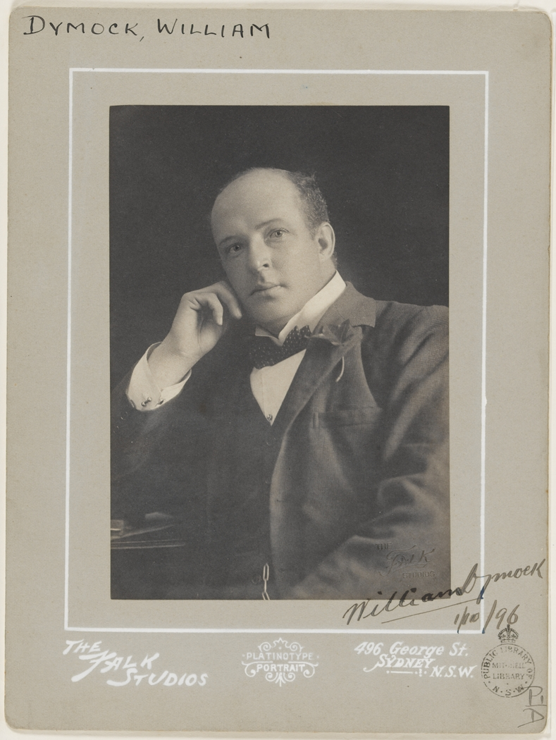 Portrait taken of the Australian bookseller William Dymock in 1896 by the Falk Studios, 496 George Strett, Sydney, N.S.W., Australia.